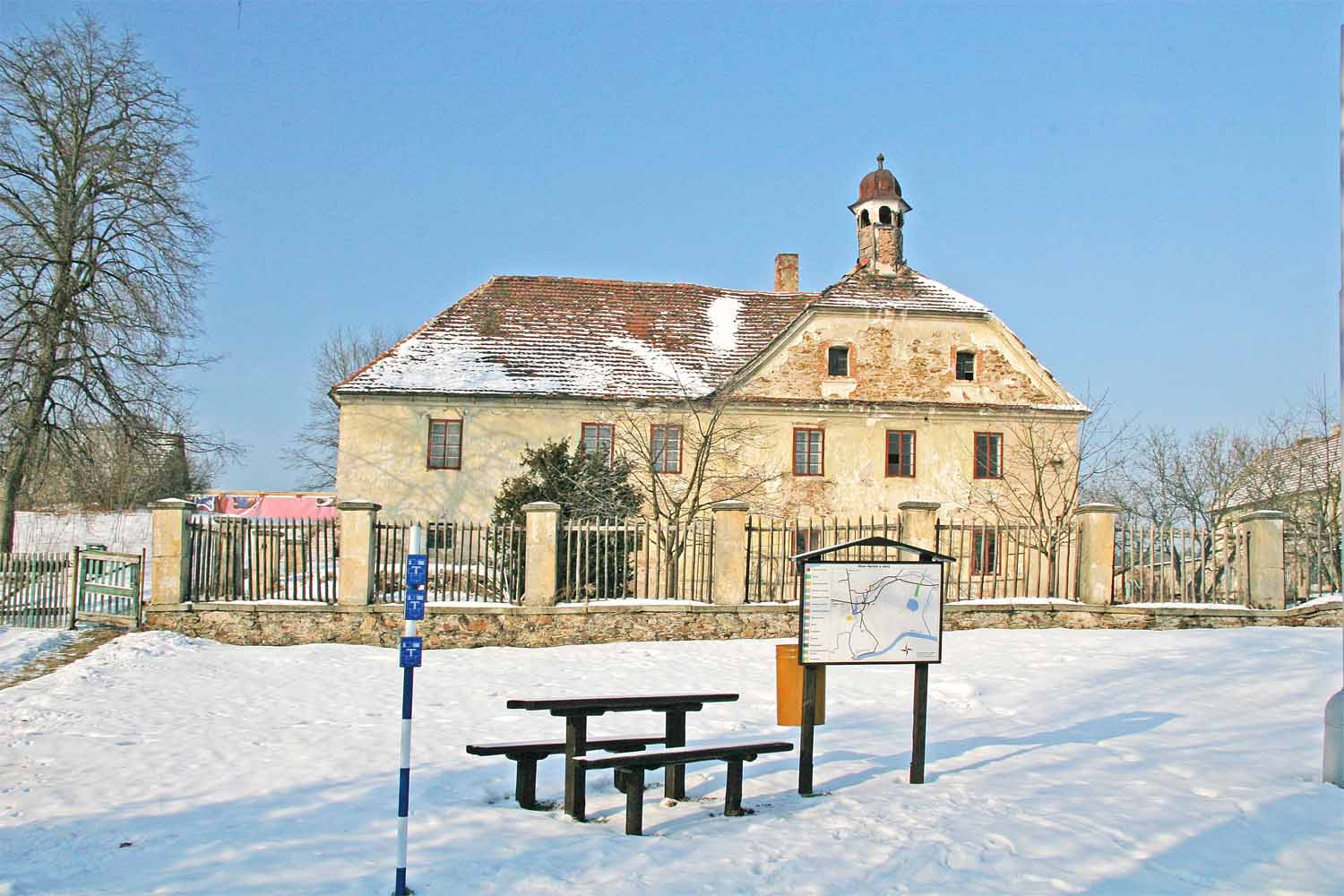 Former Baroque chateau, later a brewery, in Semín, Pardubice District, Czech Republic